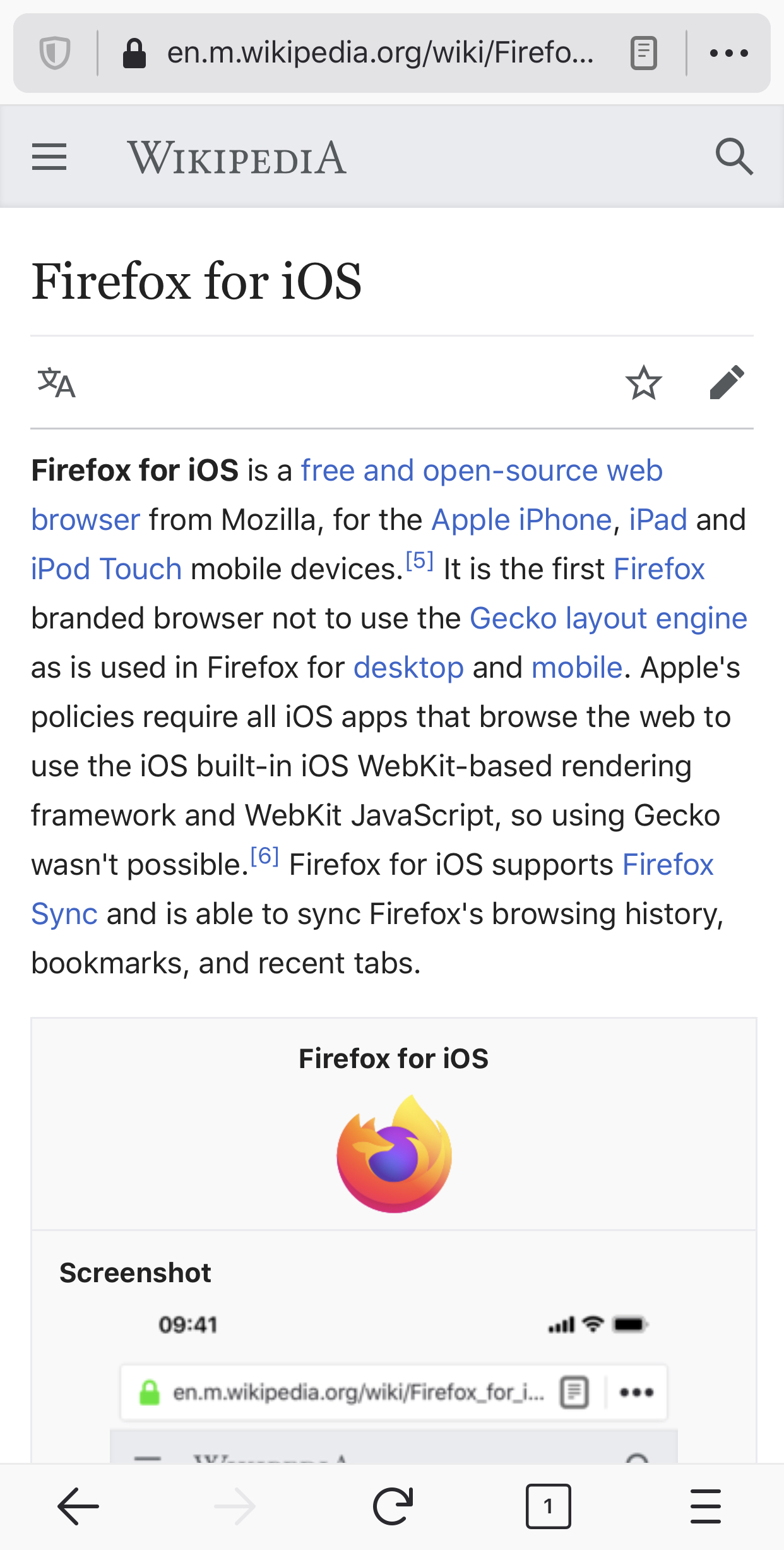 Screenshot of Firefox for iOS